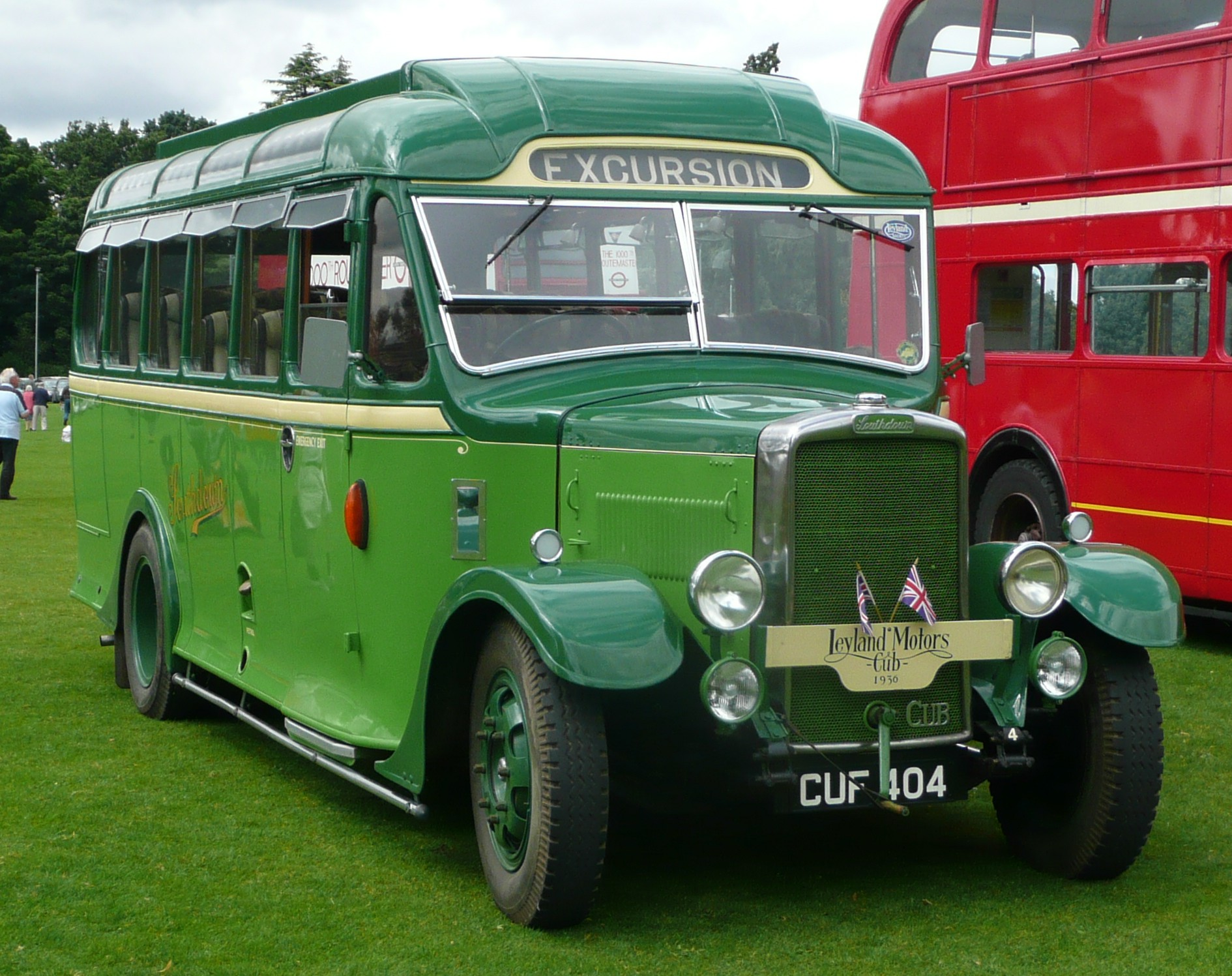 Preserved Southdown Motor Services CUF 404, a 1936 Leyland Cub/Harrington, at the 2008 Alton bus rally at Anstey Park.